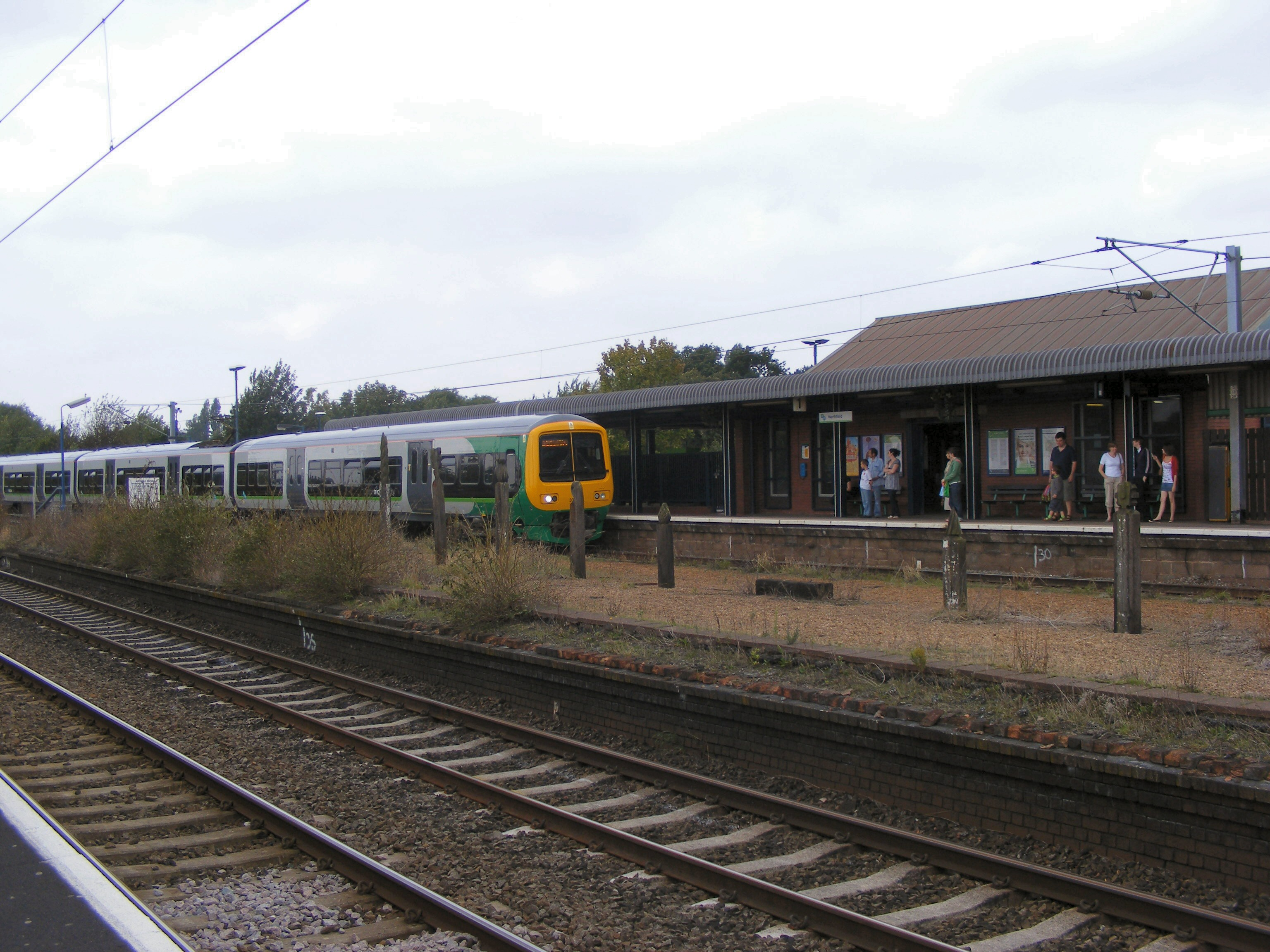 Northfield railway station in Birmingham, England. Note Class 323 train and sculptures made of railway sleepers on the disused island platform.